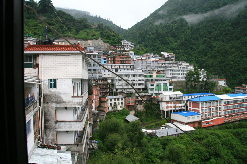 Zhangmu, Nyalam County, Xigazê Prefecture, Tibet Autonomous Region, China What Zhangmu, the border town, looks like